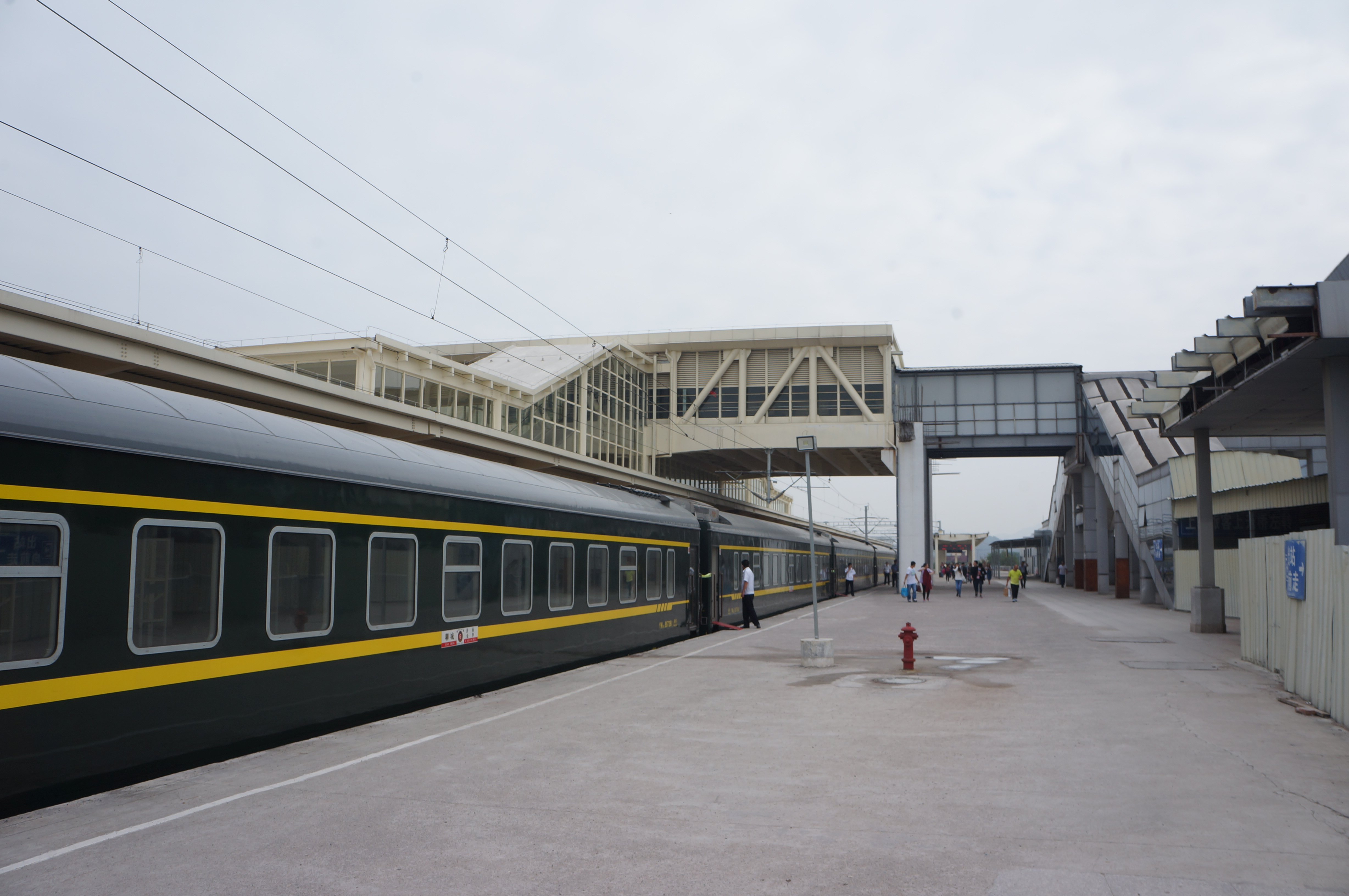 201610 K1511 at Yiwu Station